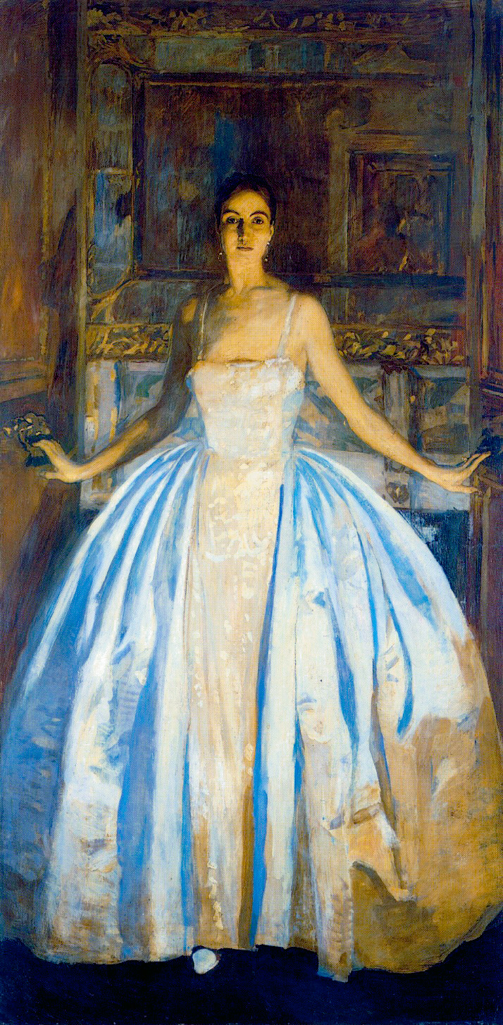 Ritratto dalla Marchesa Malacrida, depicting Nadja Malacrida, by Ettore Tito, now in the collection of the Galleria Internazionale d’Arte Moderna at Museo di Ca' Pesaro, having been donated by her husband.